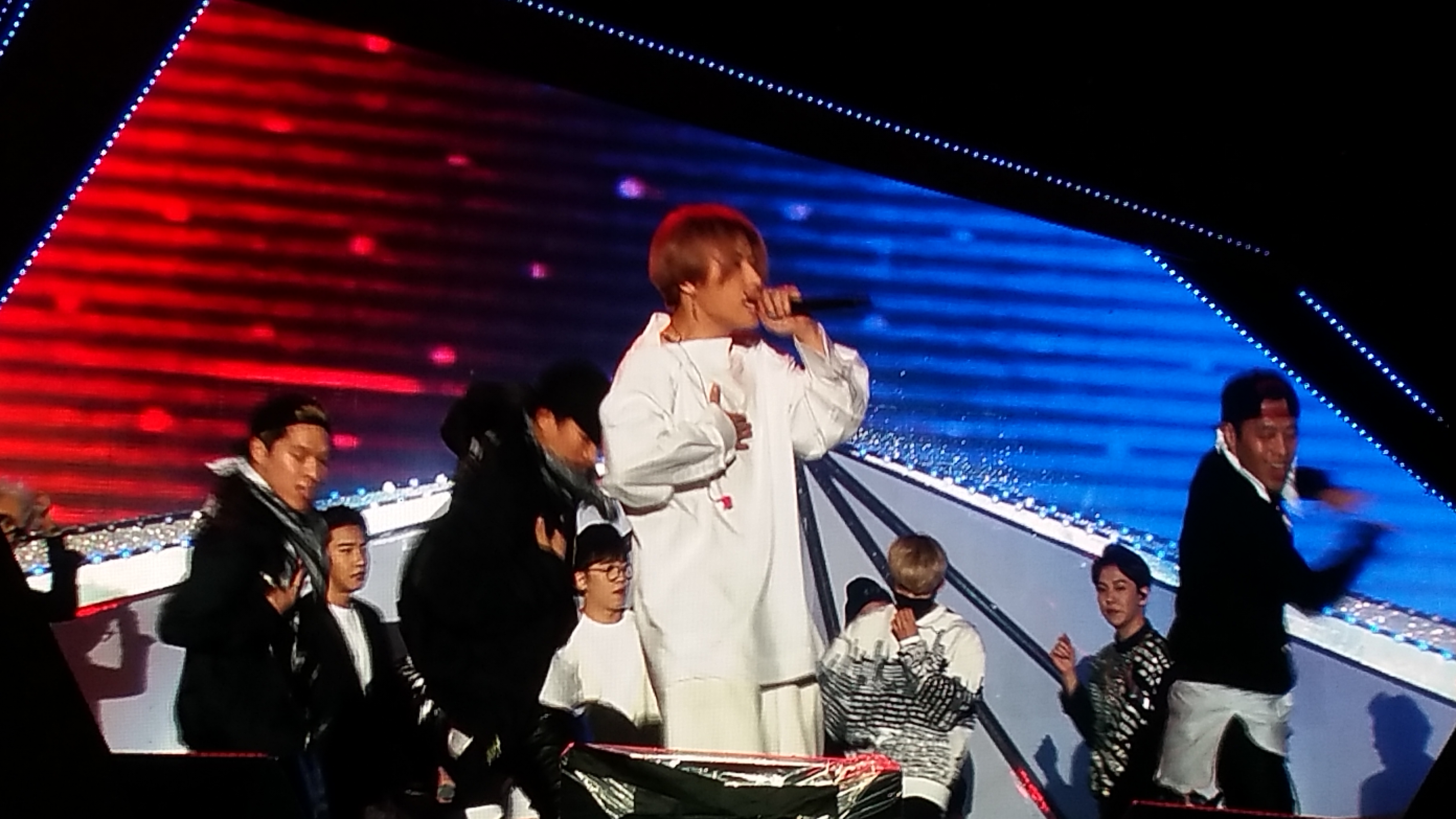 KCON JEJU 2015, stadium concert performers Block B, November 7, Jeju Stadium, Jejudo, South Korea.